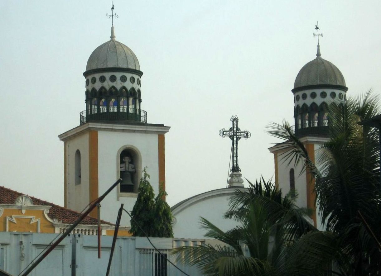 Church in Luanda, Angola. Cathedral of Archdiocese of Luanda